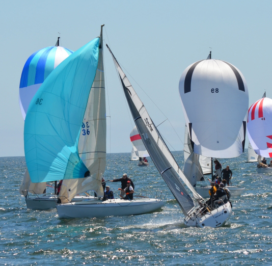 Illustration of sailboats under different points of sail. The left-hand boat is sailing down wind with the sails propelling the boat primarily due to drag forces. The right-hand boat is sailing up wind with the sails propelling the boat primarily by lift.